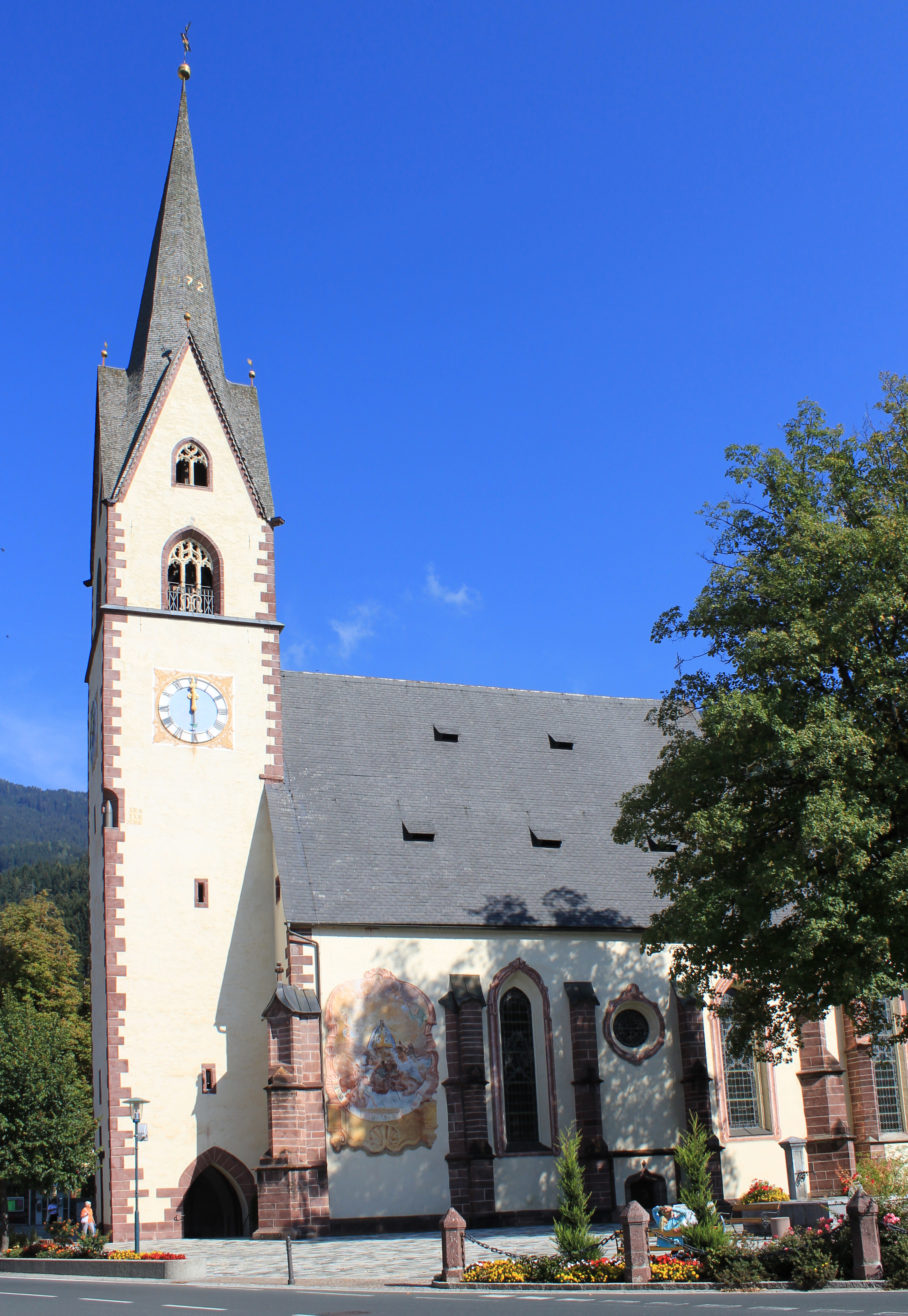 Church of Kötschach in the community of Kötschach-Mauthen